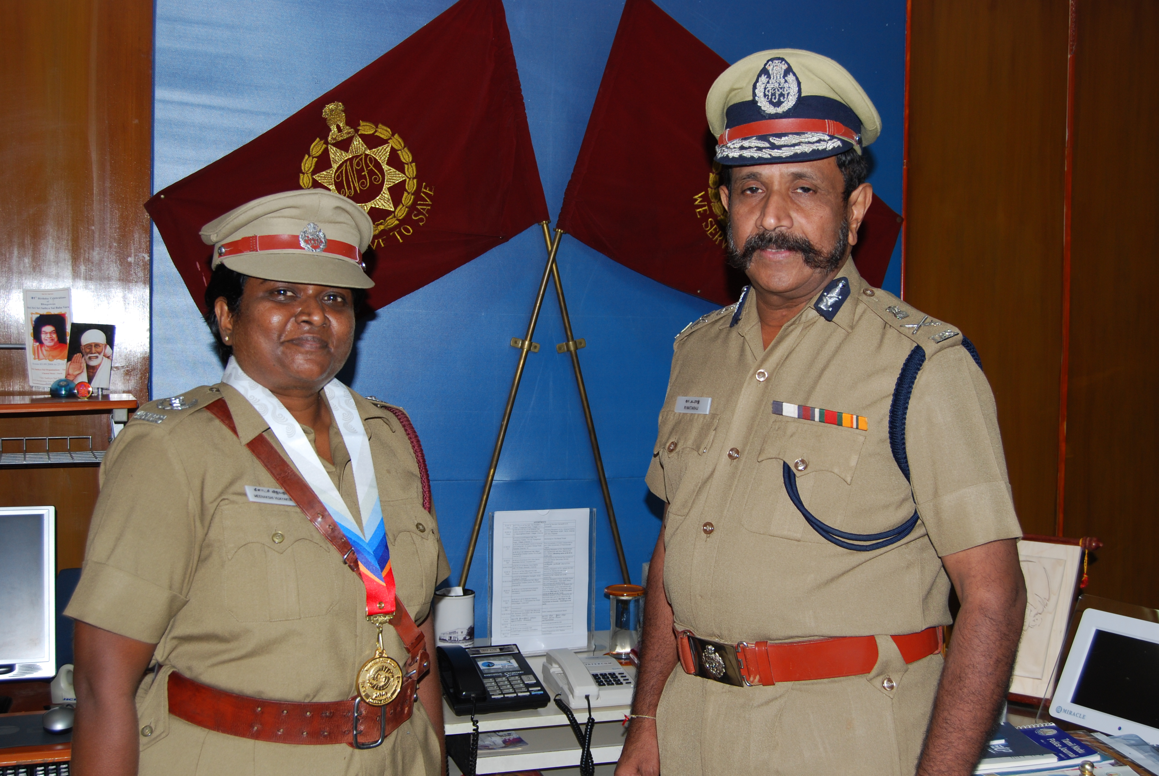 Appropriated by DGP Natraj